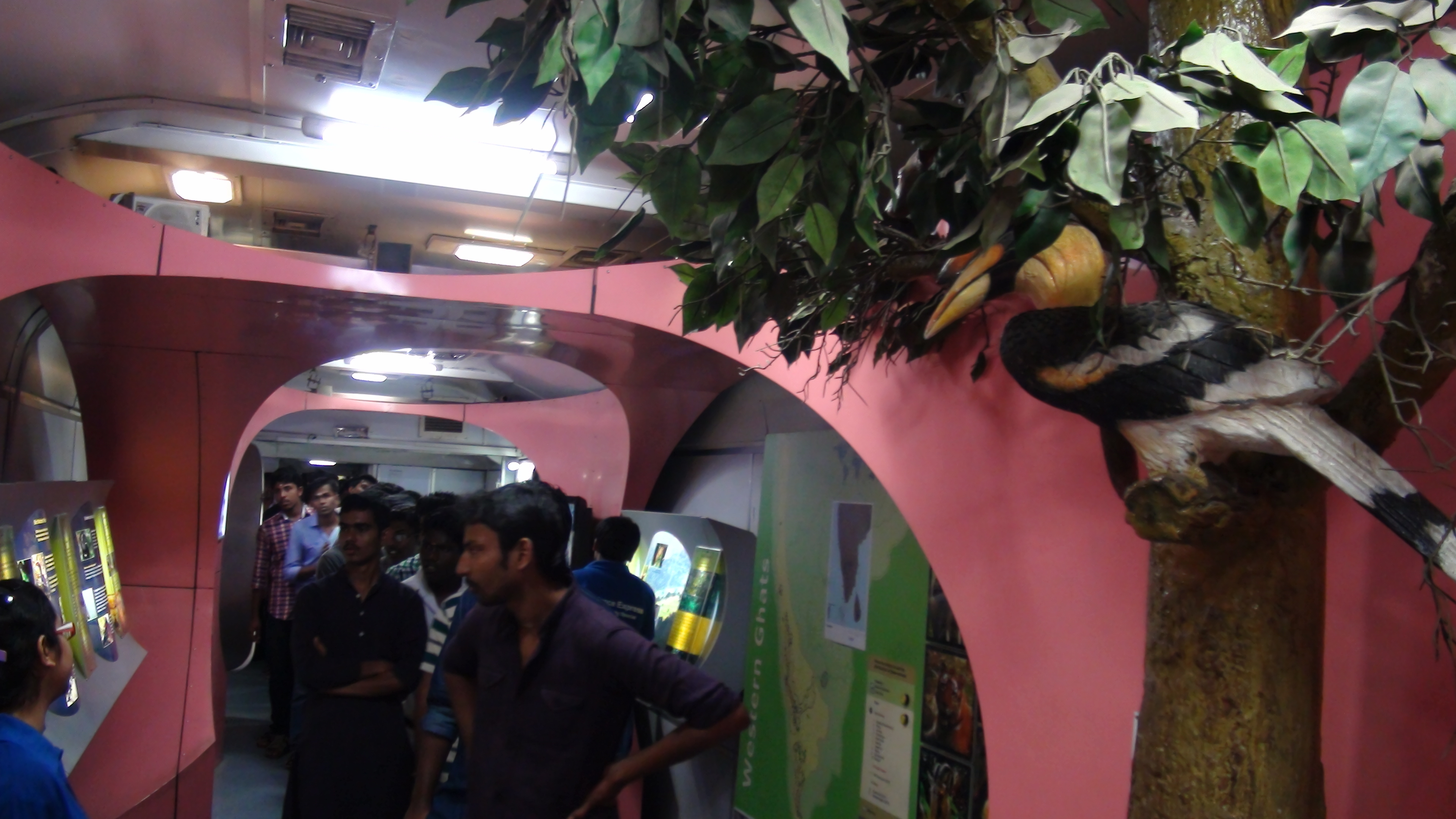 science express bio diversity special